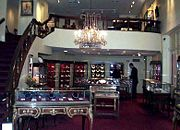 Inside A La Vieille Russie